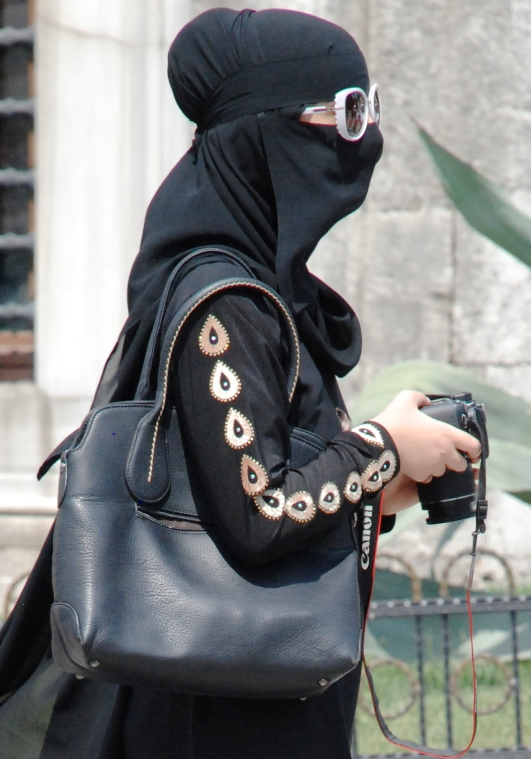 Gulf tourist in niqab with modern accessories in Sultanahmet, Istanbul